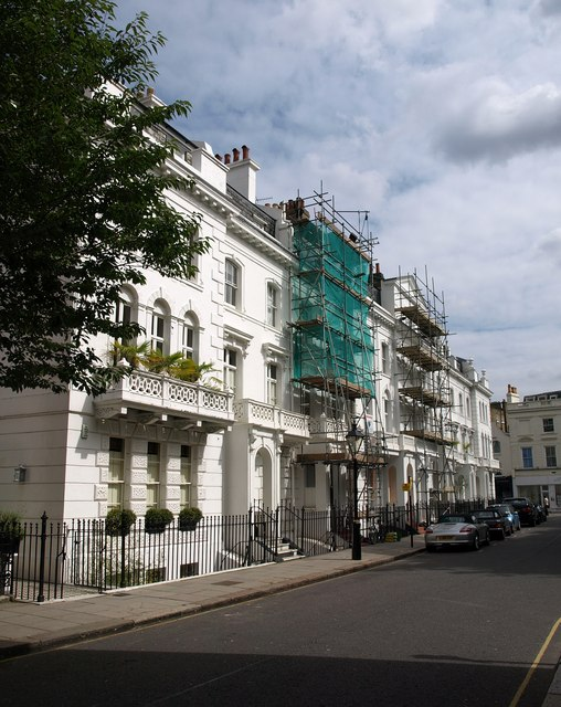 Hereford Square Hereford Square is "one of the prettiest squares in South Kensington" , which has a detailed history of the building of the houses. "The north west and south terraces are all painted white. The houses are mainly four-storeys (plus basement) with a first floor balustrade balcony. Hereford Square was built on land belonging to the Day Estate. The square was laid out on land which had previously been a paddock adjoining Gloucester Road." This terrace is on the northwest side and is listed - , which mistakenly describes it as being on the east side. Particularly attractive are the pierced balconies.